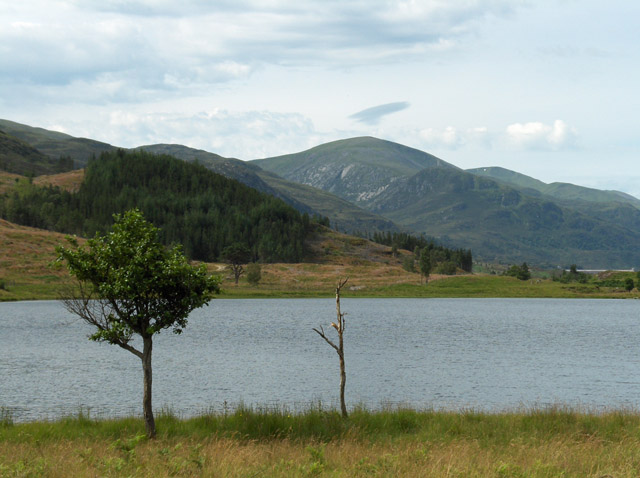 Loch Carrie. The Loch Mullardoch dam can just be seen. Toll Creagach is the dominant mountain in the view.